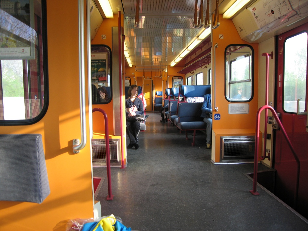 The interior of a ÖBB 4020 train.